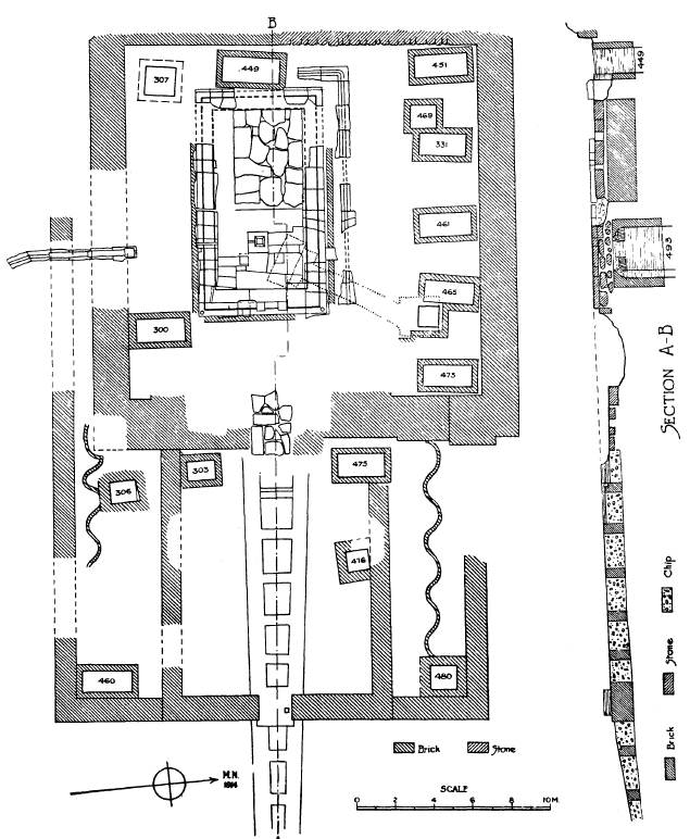 Mastaba 493